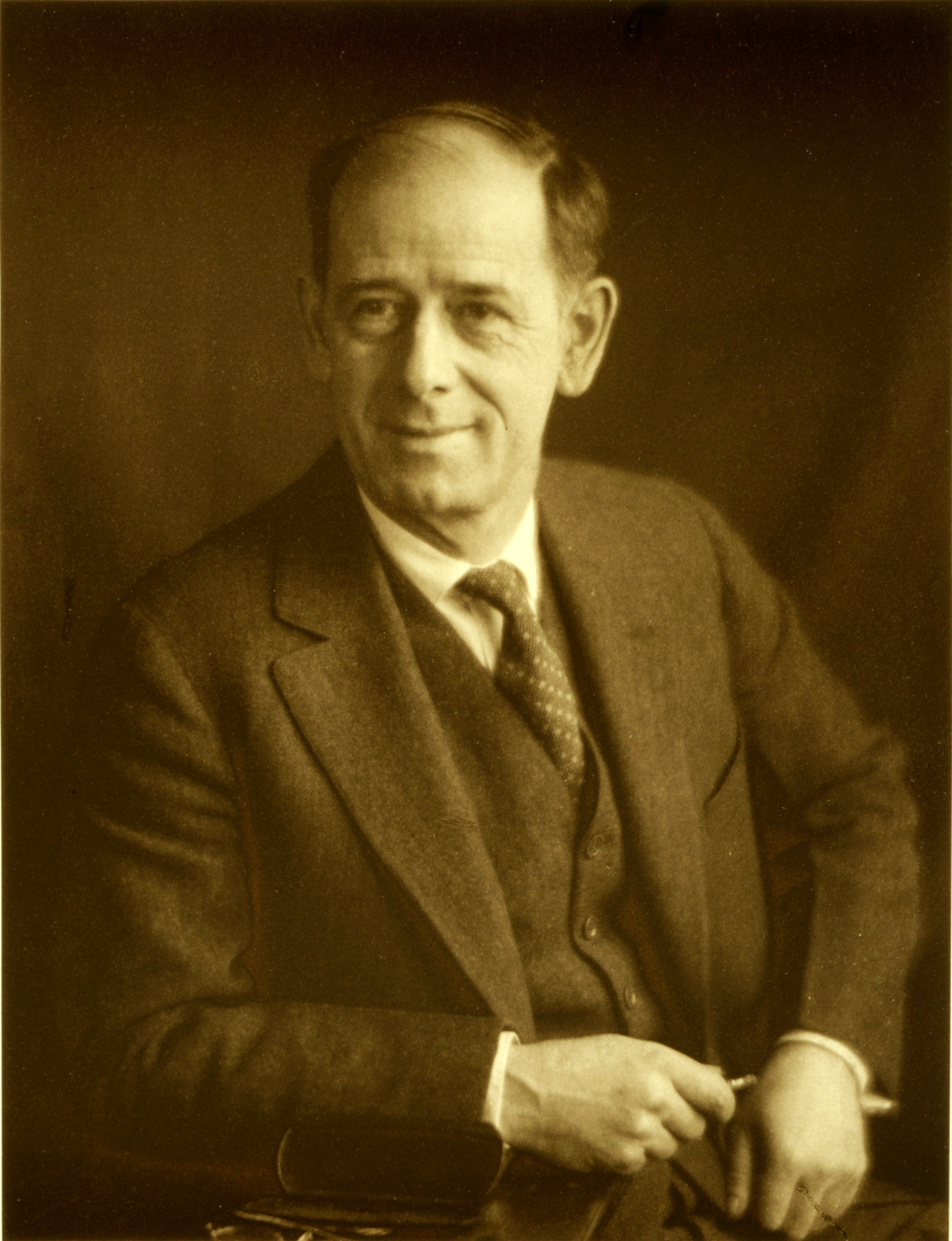 Clarence Hudson White ( 1871 - 1925) was an American photographer and a founding member of the Photo-Secession movement. During his lifetime he was widely recognized as a master of the art form for his consummate sentimental, pictorial portraits and for his excellence as a teacher of photography. Toward the end of his career he founded the Clarence H. White School of Photography, which produced many of the best-known photographers of the Twentieth Century including Margaret Bourke-White, Dorothea Lange, and Paul Outerbridge.